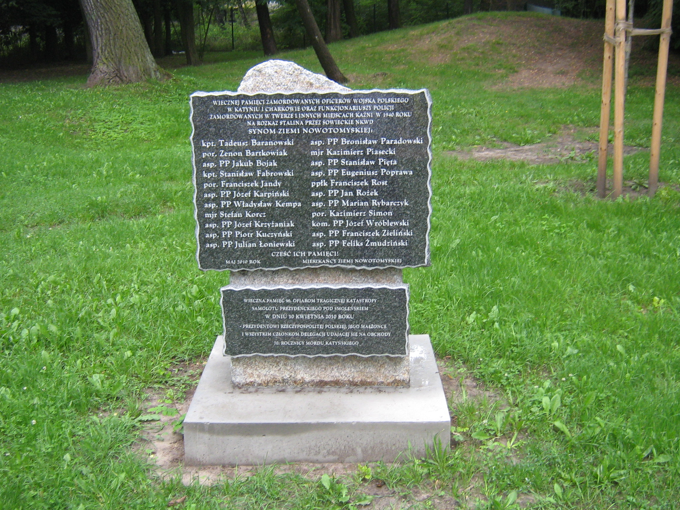 Monument to the victims of Katyn massacre in Nowy Tomyśl (Poland)